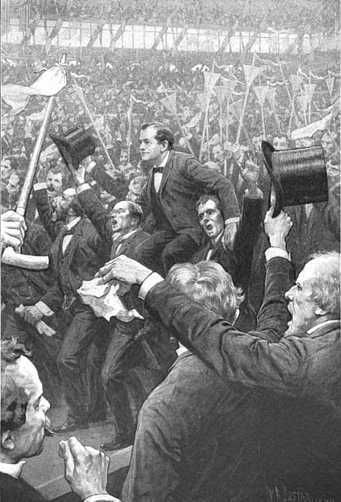 Artist's conception of William Jennings Bryan after the Cross of Gold speech at the 1896 Democratic National Convention